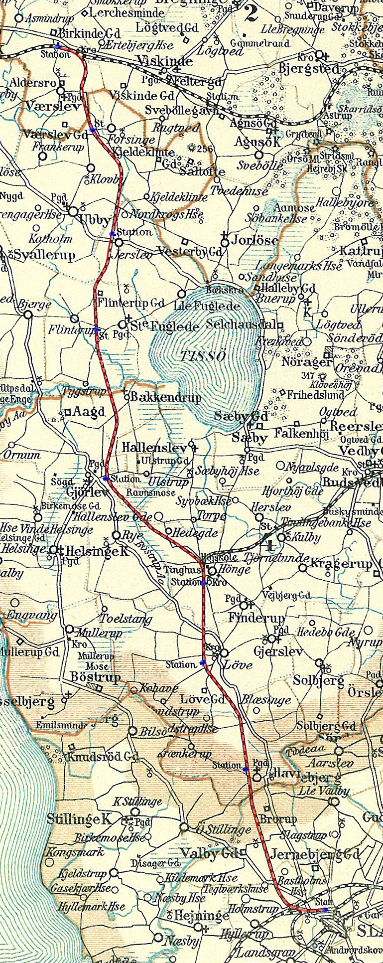 Map of Sorø County in Denmarkda:Kort over Holbæk Amt Map of Holbæk County in Denmark